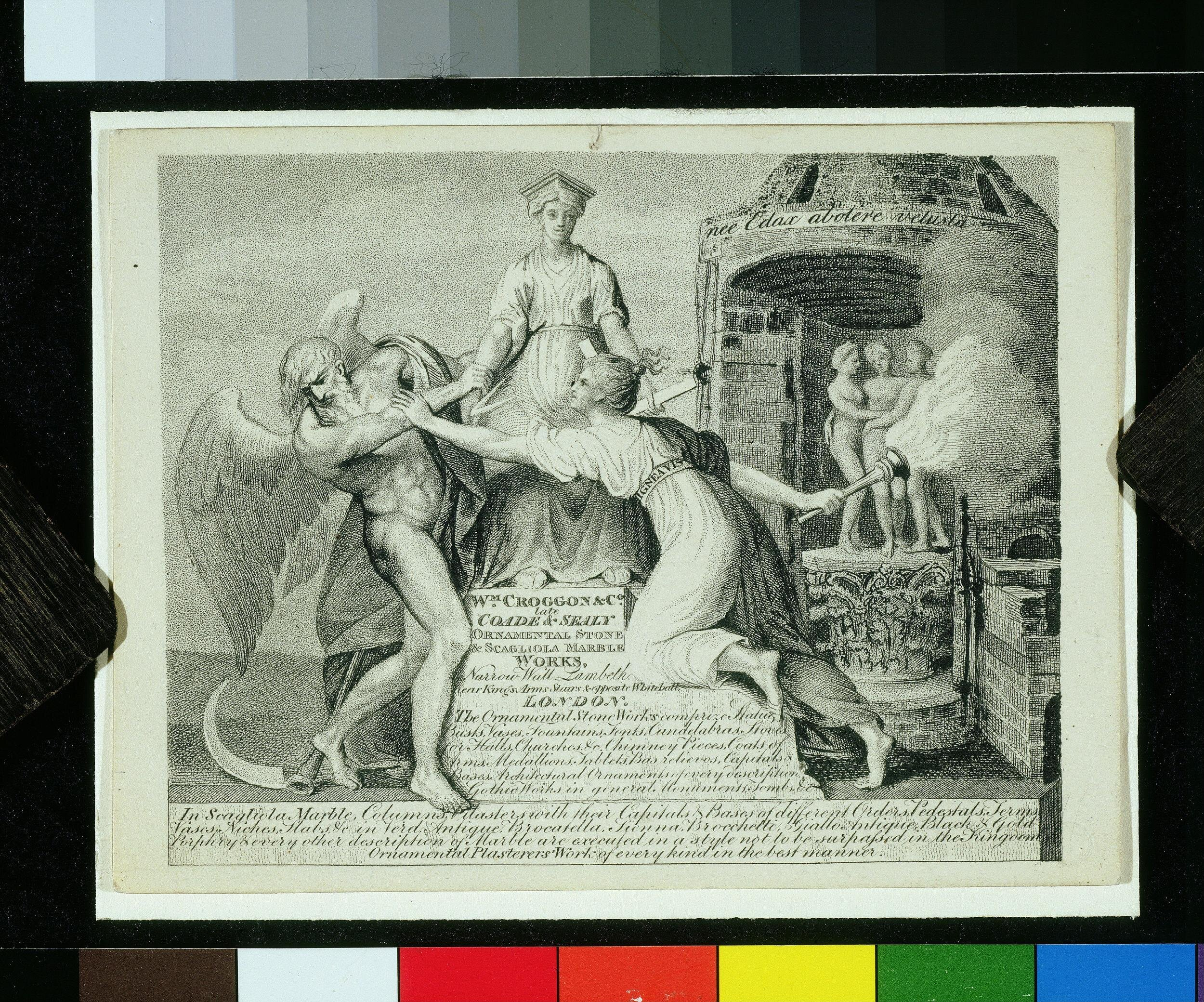 Trade card designed by John Bacon, about 1821 V&A Museum no. 29380B/24 Techniques - Stipple etching, ink on paper Artist/designer - John Bacon (designer), C. Wray (engraver) Place - London, England Dimensions - Height 10.6 cm (paper), Width 14.3 cm (paper) Object Type - This object is a trade card, a small printed card used to promote a particular business or trade. Trade cards were handed out to customers or pinned up to act as an advertisement and were therefore printed, in this case etched, so that a number of them could be circulated. People - John Bacon (1740-1799) became a well-known Neo-classical sculptor, but following his initial apprenticeship at a ceramics factory in the Lambeth area of London, he also created models for some of the most famous potteries of the day, such as Wedgwood and Derby. In about 1767 he became a modeller for the Coade Artificial Stone Manufactory in Lambeth, where he created a wide variety of works. His trade card design, which was also used as a catalogue frontispiece, dates from this period, although it remained in use well after Bacon's death. Materials & Making - Coadestone is a moulded artificial stone, essentially a ceramic, fired to great temperatures in the kiln to make it weather resistant. Eleanor Coade (1733-1821) inherited the business from her parents, and developed it into a highly successful commercial enterprise. Her cousin John Sealy was a partner until his death in 1813. Her successor was her manager, William Croggon, who ran the factory on her behalf from 1813 to 1821. He then bought the factory and ran it until he went bankrupt in 1833. One of the reasons behind the success of the venture in Eleanor Coade's time was the use of Coadestone by architects such as Robert Adam (1728-1792), who wanted designs (often in multiples) that copied, or were inspired by, classical Greek and Roman examples.